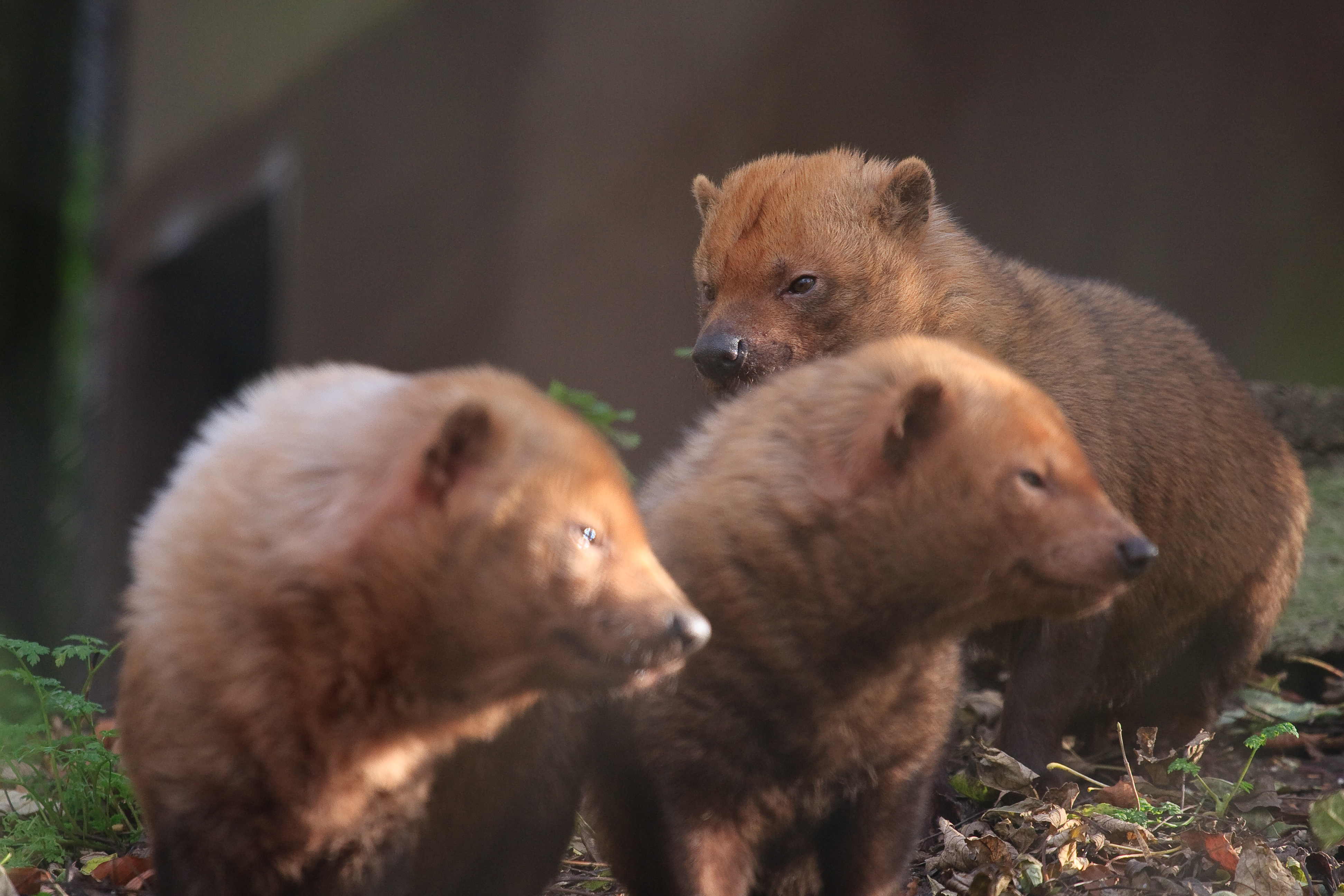 Bush Dogs (Speothos venaticus) IMG_9046 | Canon40D@200mm | 1\250s | f4.0 | ISO640